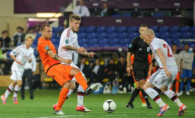 UEFA Euro 2012 match between Netherlands and Denmark that took place in Kharkiv. Final result was 0:1 (Krohn-Delhi)